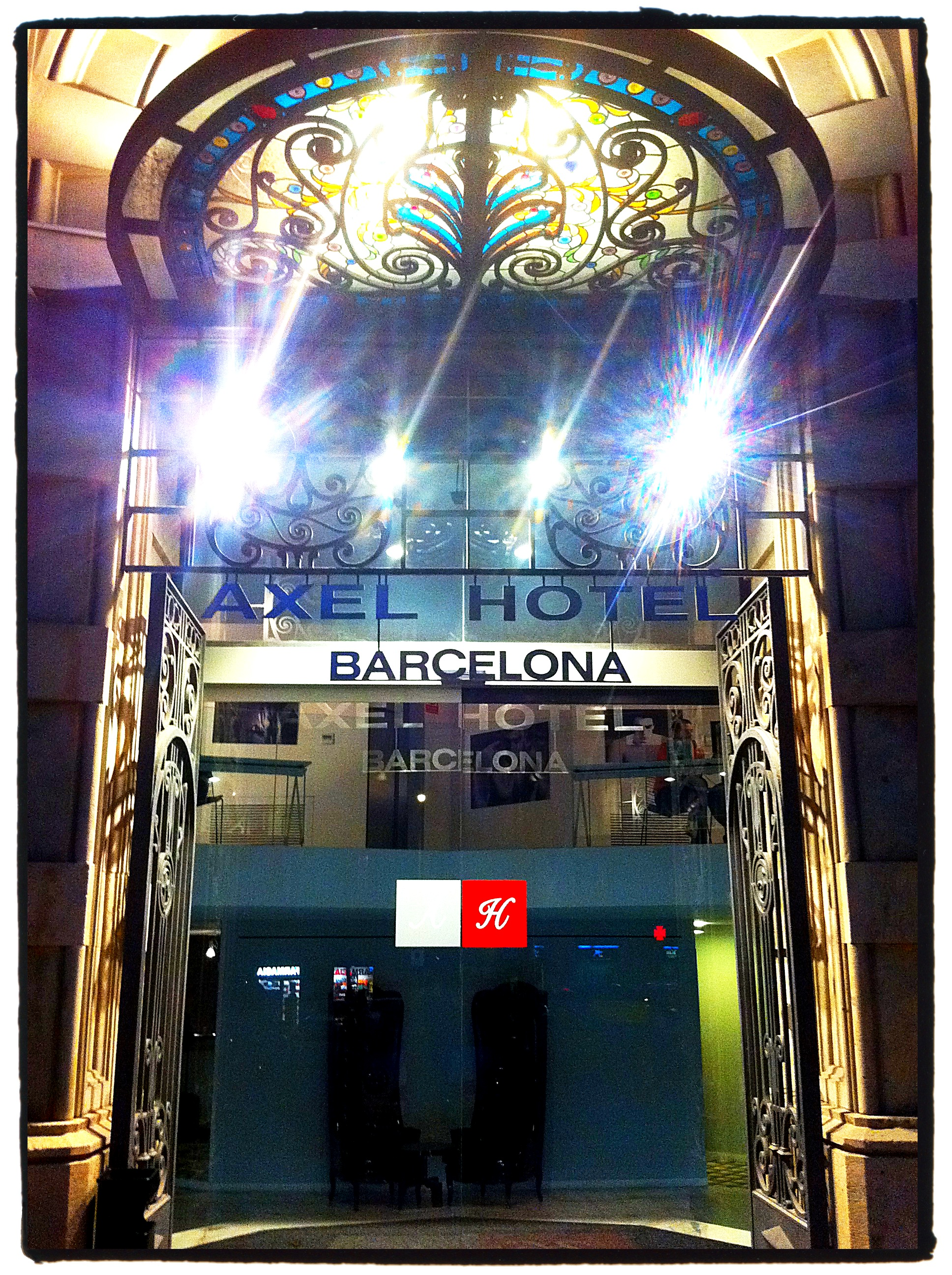 heterofriendly (Aribau / Consell de Cent)